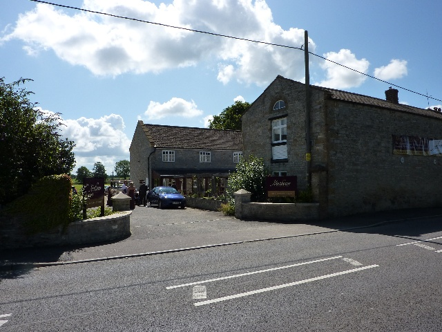 Northover Manor Now a hotel and wedding venue.